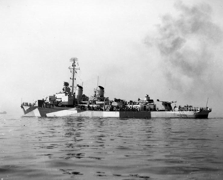 USS Mannert L. Abele (DD-733) off the Boston Navy Yard, Massachusetts, 1 August 1944. She is wearing Camouflage Measure 32, Design 11A.